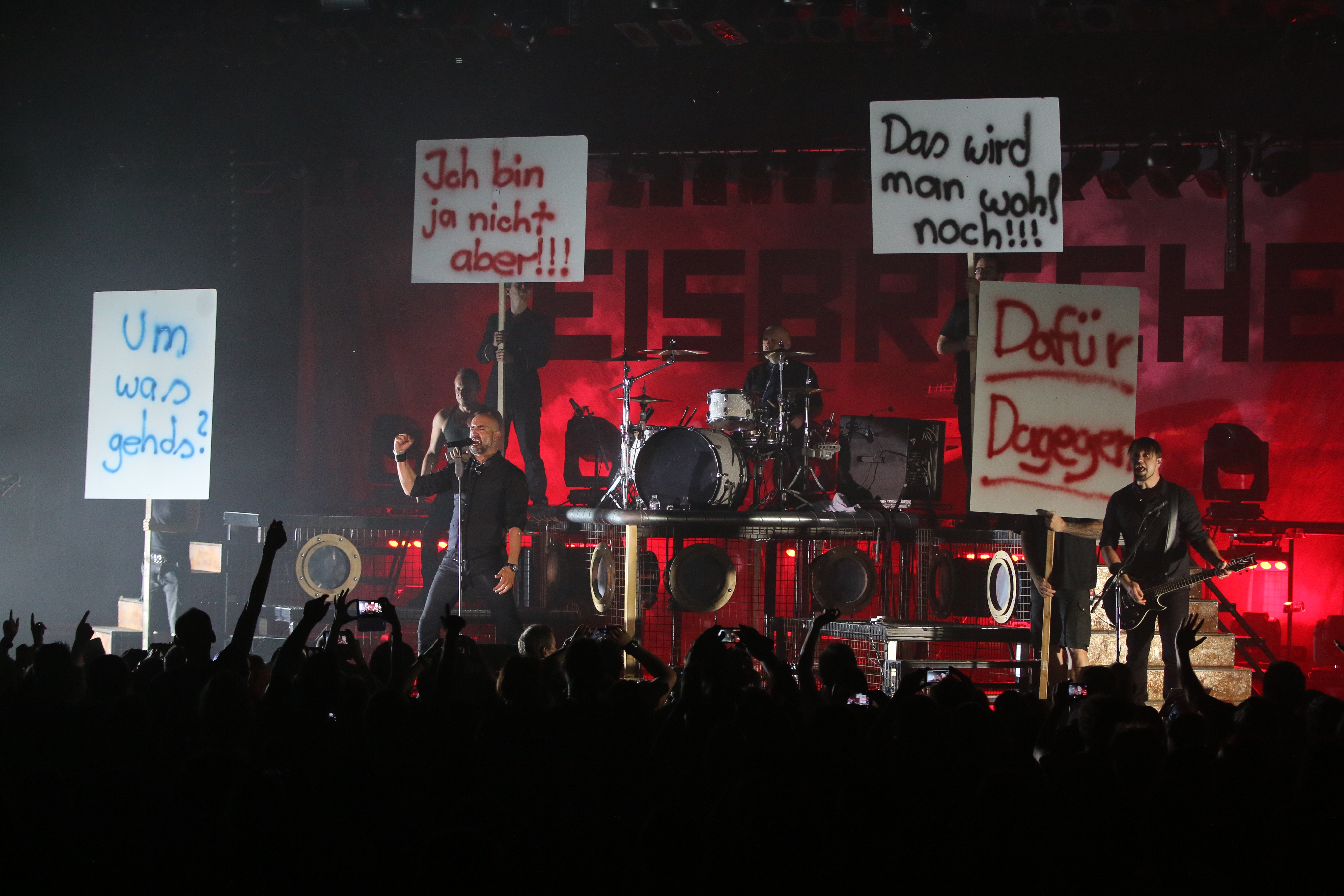 Eisbrecher at the Zelt-Musik-Festival in Freiburg im Breisgau on July 17th, 2016.